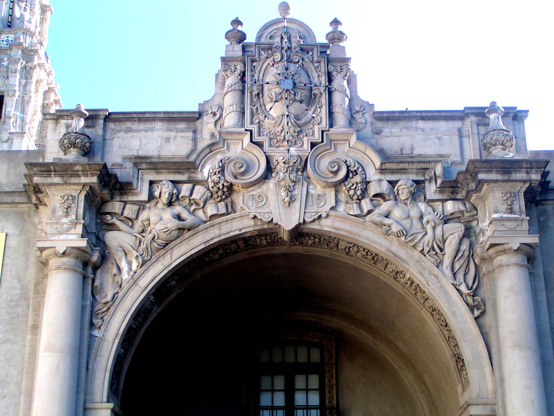 tympanum by F Piccirilli in Balboa Park, San Diego USA - Pre 1923